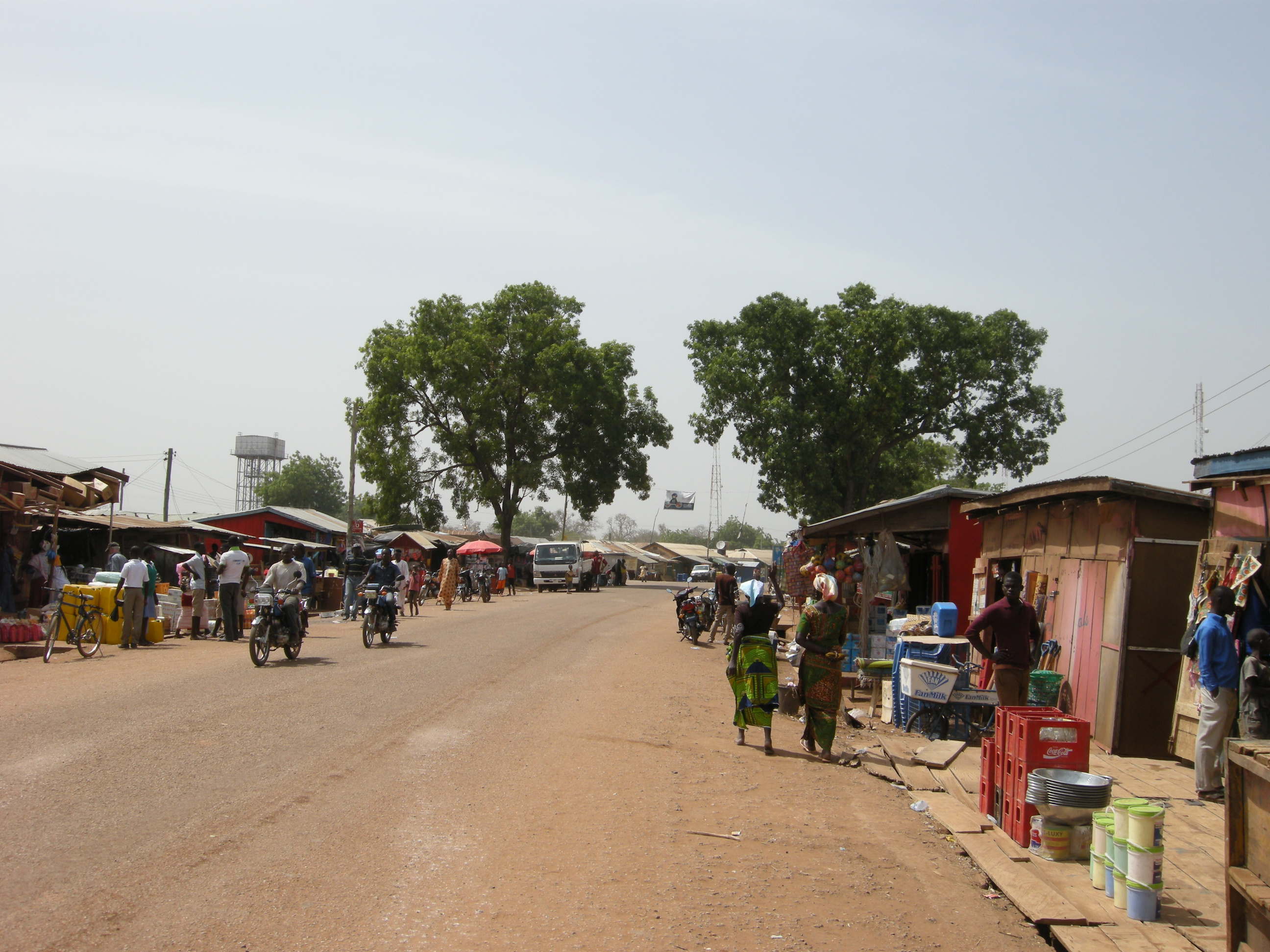 Direction to Larabanga / Sawla